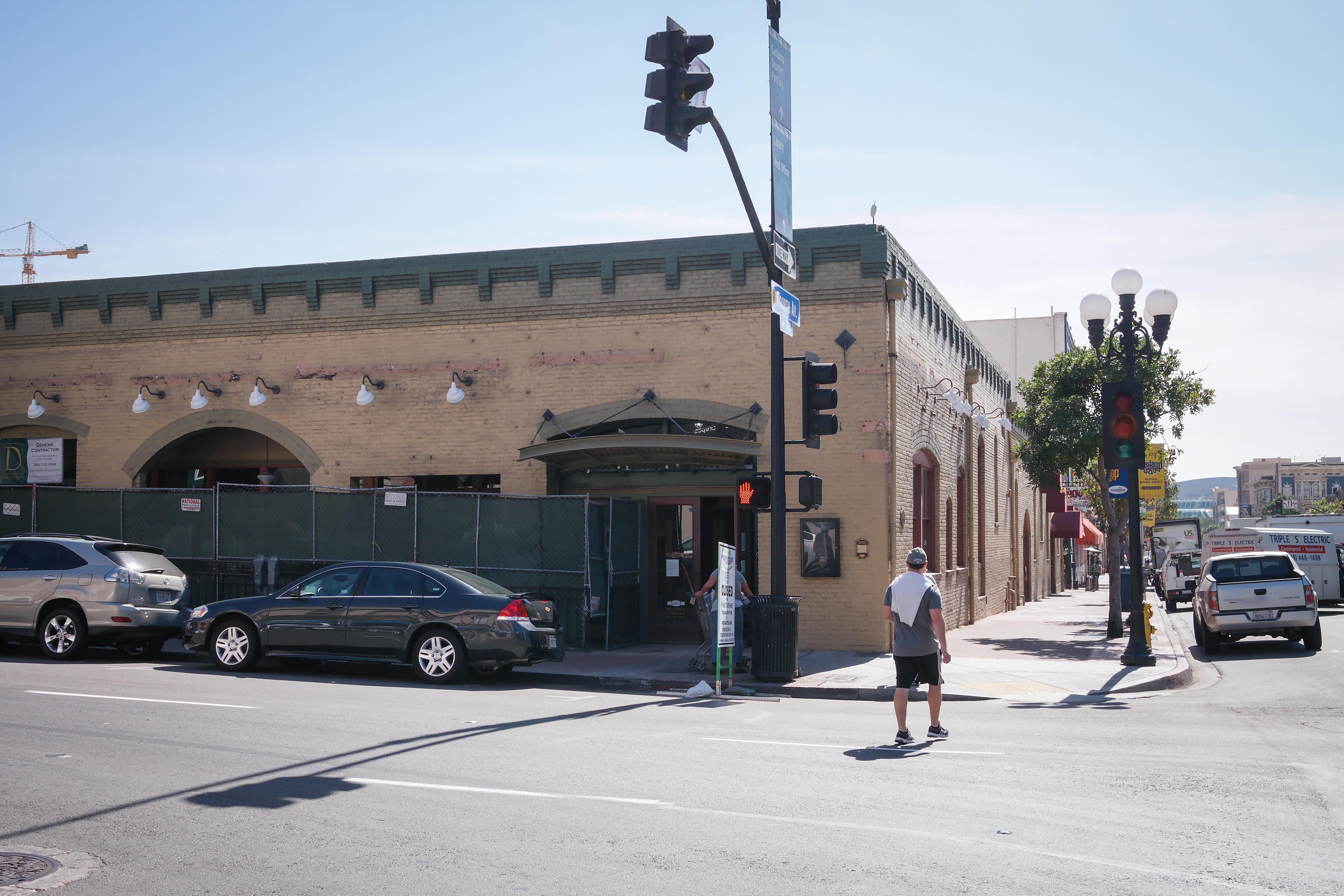 Historic Building Survey plaque: "Carriage Works, 1890. Constructed to house the wholesale business of Todd and Hawley, which operated here until 1902. Their stock was purchased by Lyons Implement Company, which carried a complete line of Studebaker vehicles, including buggies and wagons. Along with Lyons, San Diego Gas & Electric, San Diego Farm and Dairy Supply, a tent and awning company and the Volunteers of America have occupied the building."